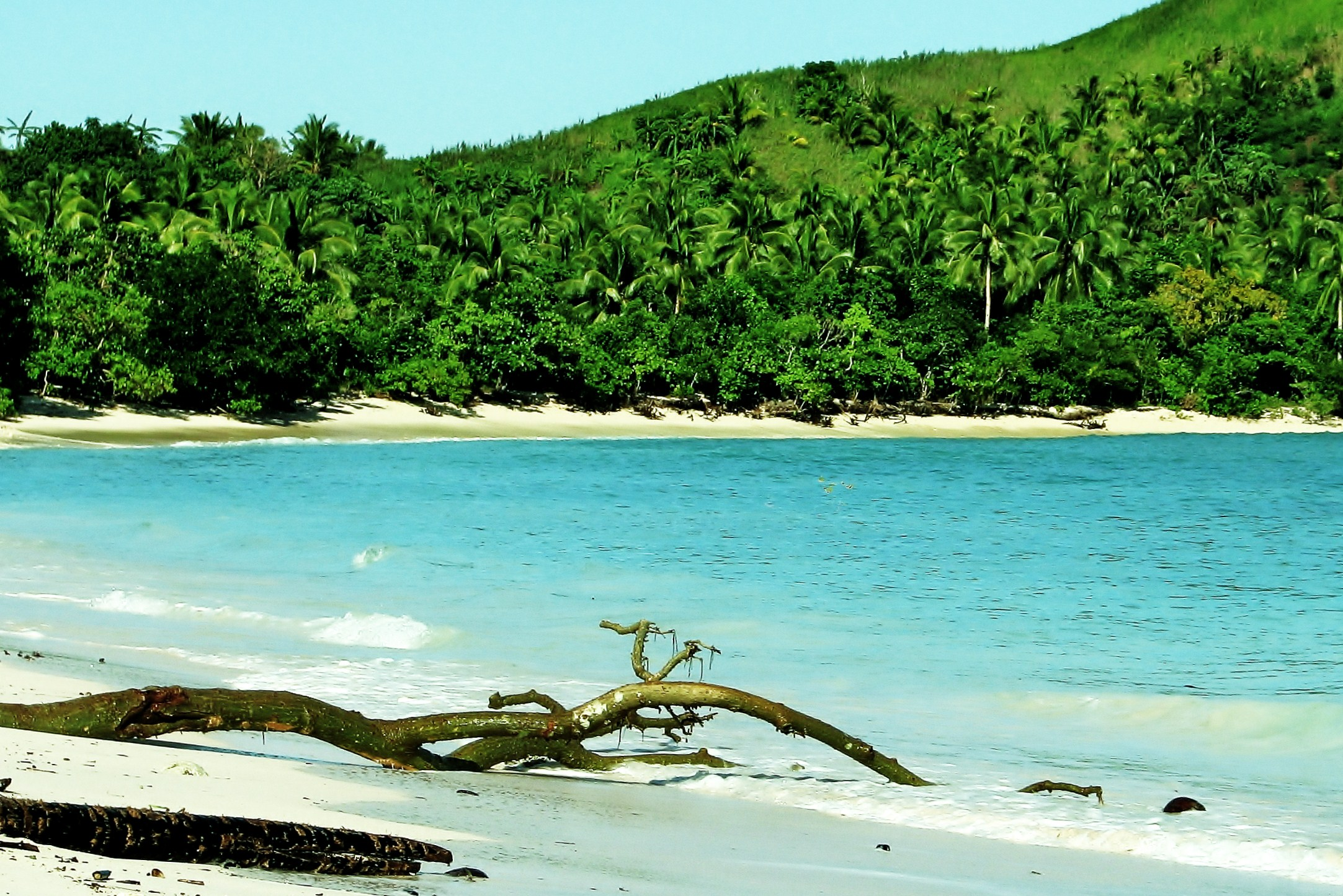 Subic Beach at Matnog's Calintaan Island